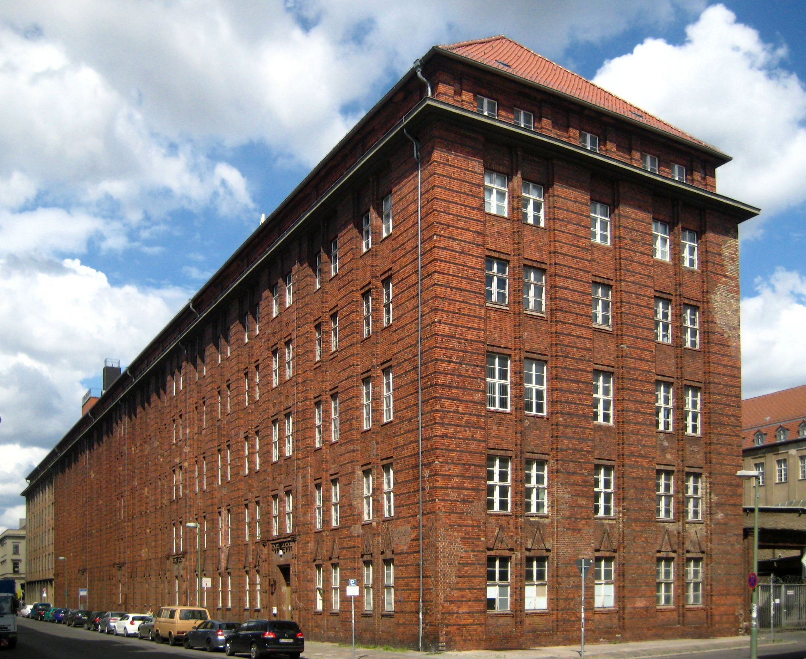 The former "Fernsprechamt Nord" (Telephone Office Building North) on Tucholskystraße in Berlin-Mitte, built 1926 by Felix Gentzen in the style of architectural expressionism. Together with the nearby Postfuhramt (Postal Wagon Office) and the neighboring Haupttelegrafenamt (Main Telegraph Building), it constituted a large complex of postal buildings around Oranienburger Straße. The building is landmarked.